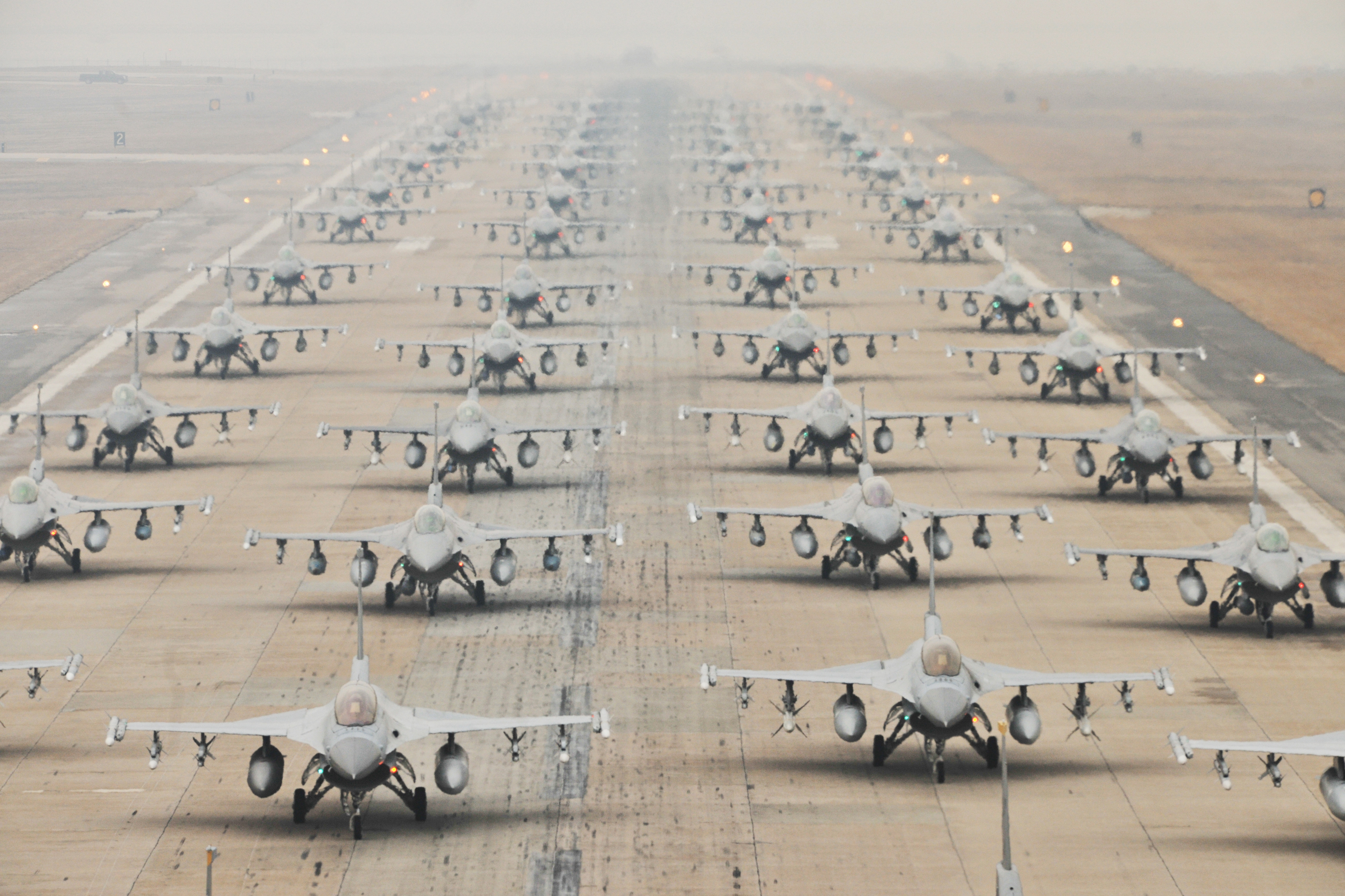 F-16 Fighting Falcons from the 35th and 80th Fighter Squadrons of the 8th Fighter Wing, Kunsan Air Base, Republic of Korea; the 421st Expeditionary Fighter Squadron of the 388th FW at Hill Air Force Base, Utah; the 55th EFS from the 20th FW at Shaw AFB, S.C.; and from the 38th Fighter Group of the ROK Air Force, demonstrate an “Elephant Walk” as they taxi down a runway during an exercise at Kunsan Air Base, Republic of Korea, March 2, 2012. The exercise showcased Kunsan AB aircrews' capability to quickly and safely prepare an aircraft for a wartime mission.